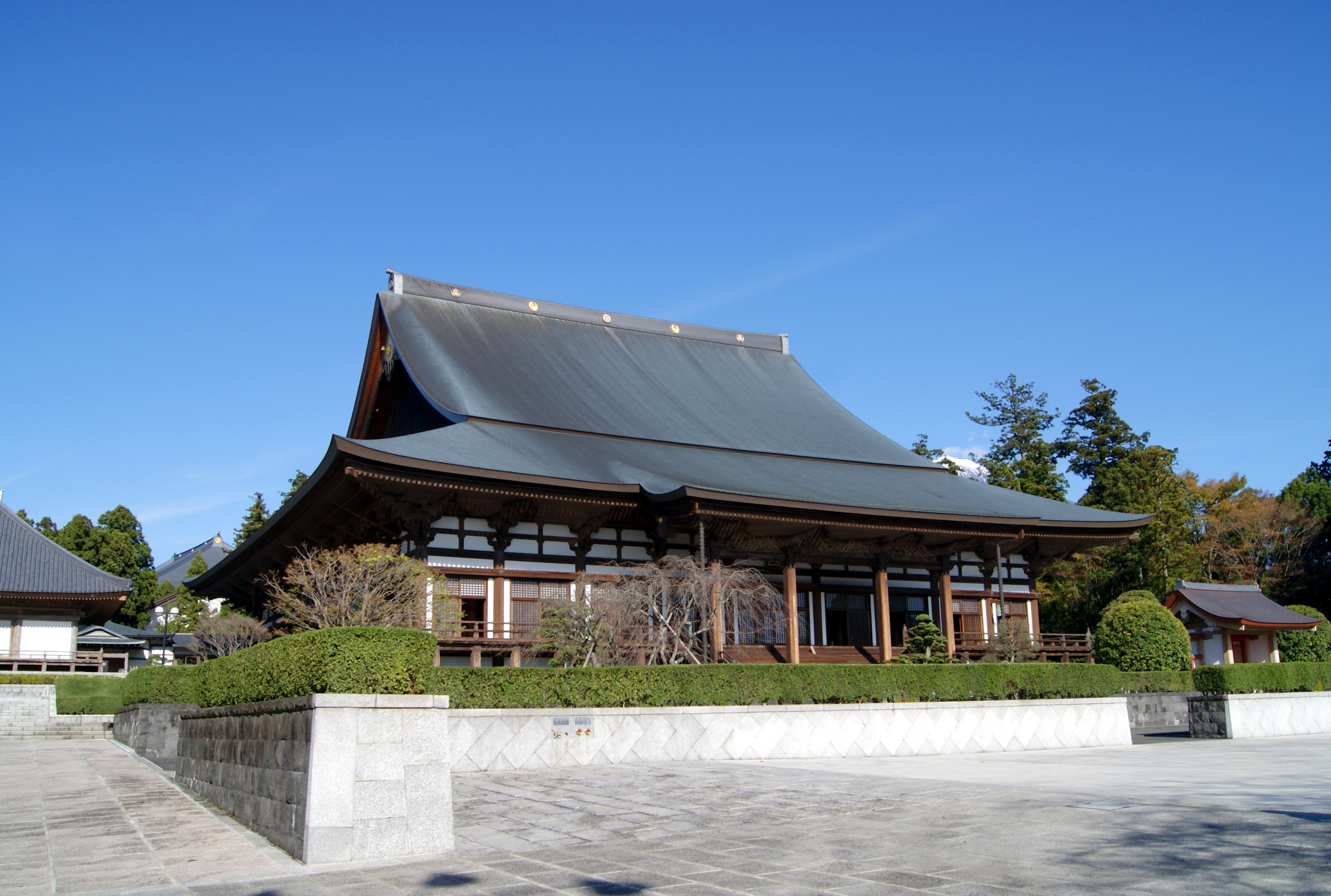 Reception Hall of Taiseki-ji in 2009-11.